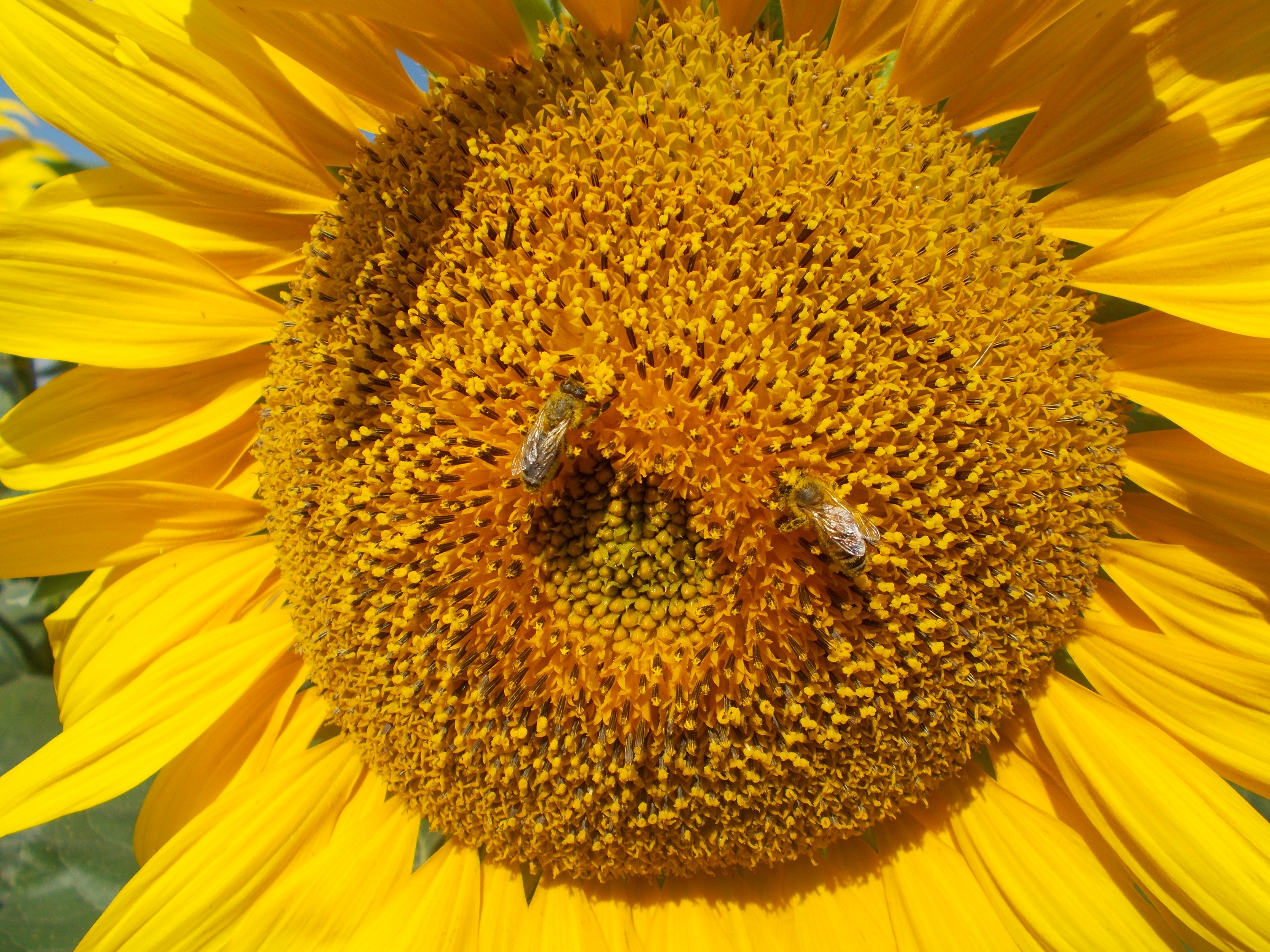 Sunflowers.